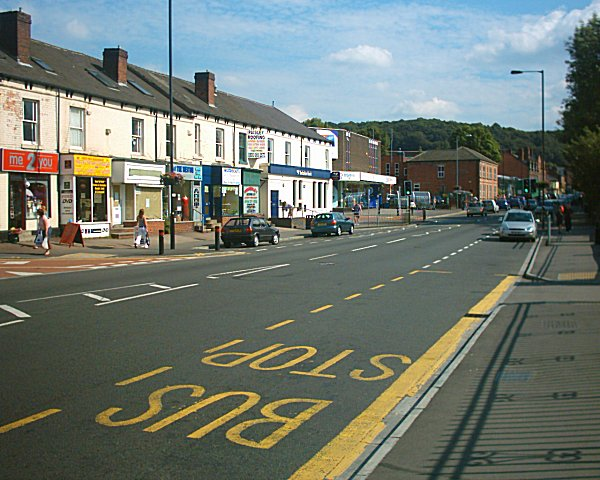 Chesterfield Road in Woodseats, Sheffield.